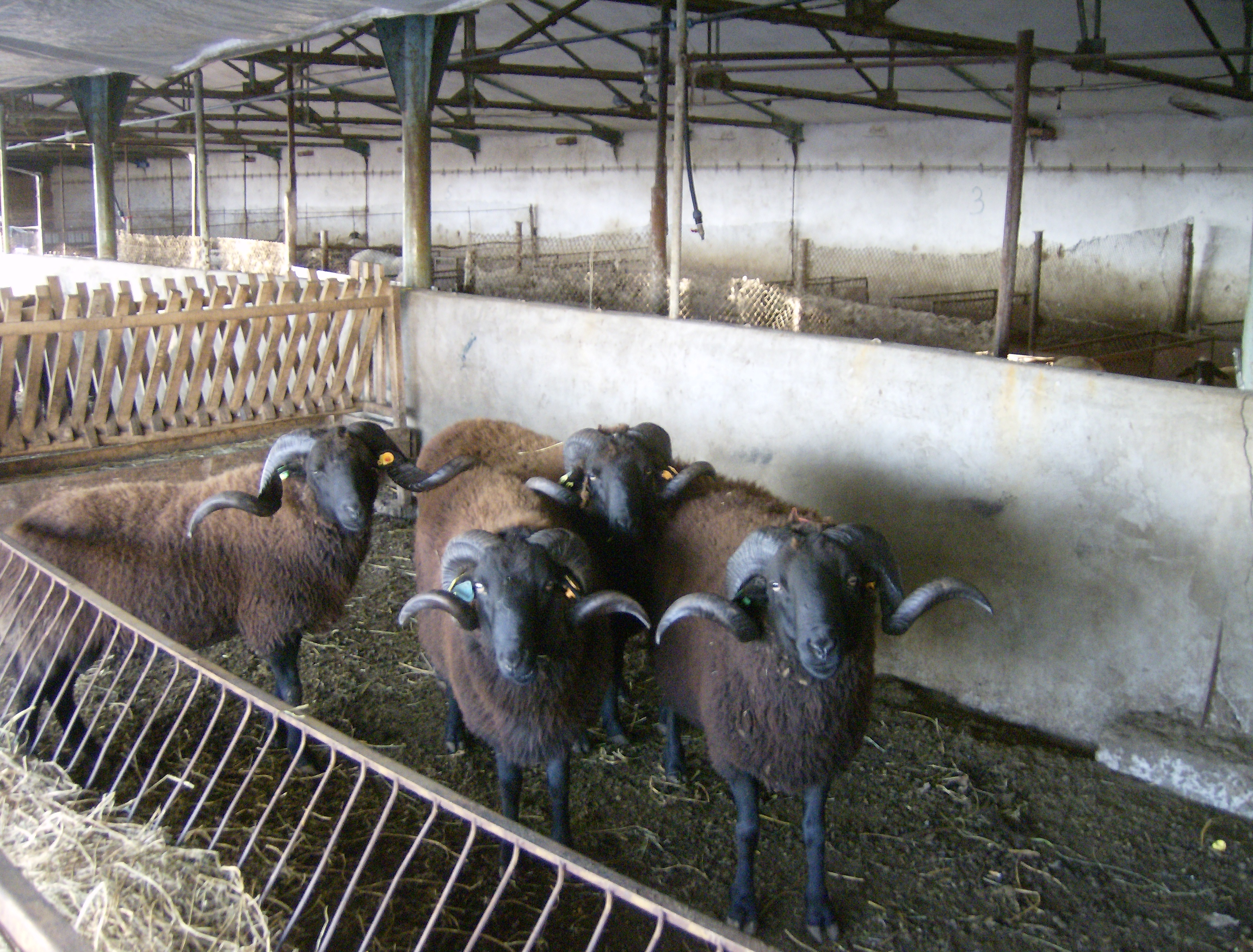 Copper-Red Shumen Sheep